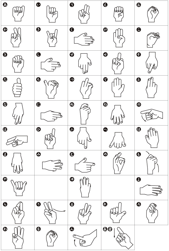 The Fingeralphabet from the Japanese sign language